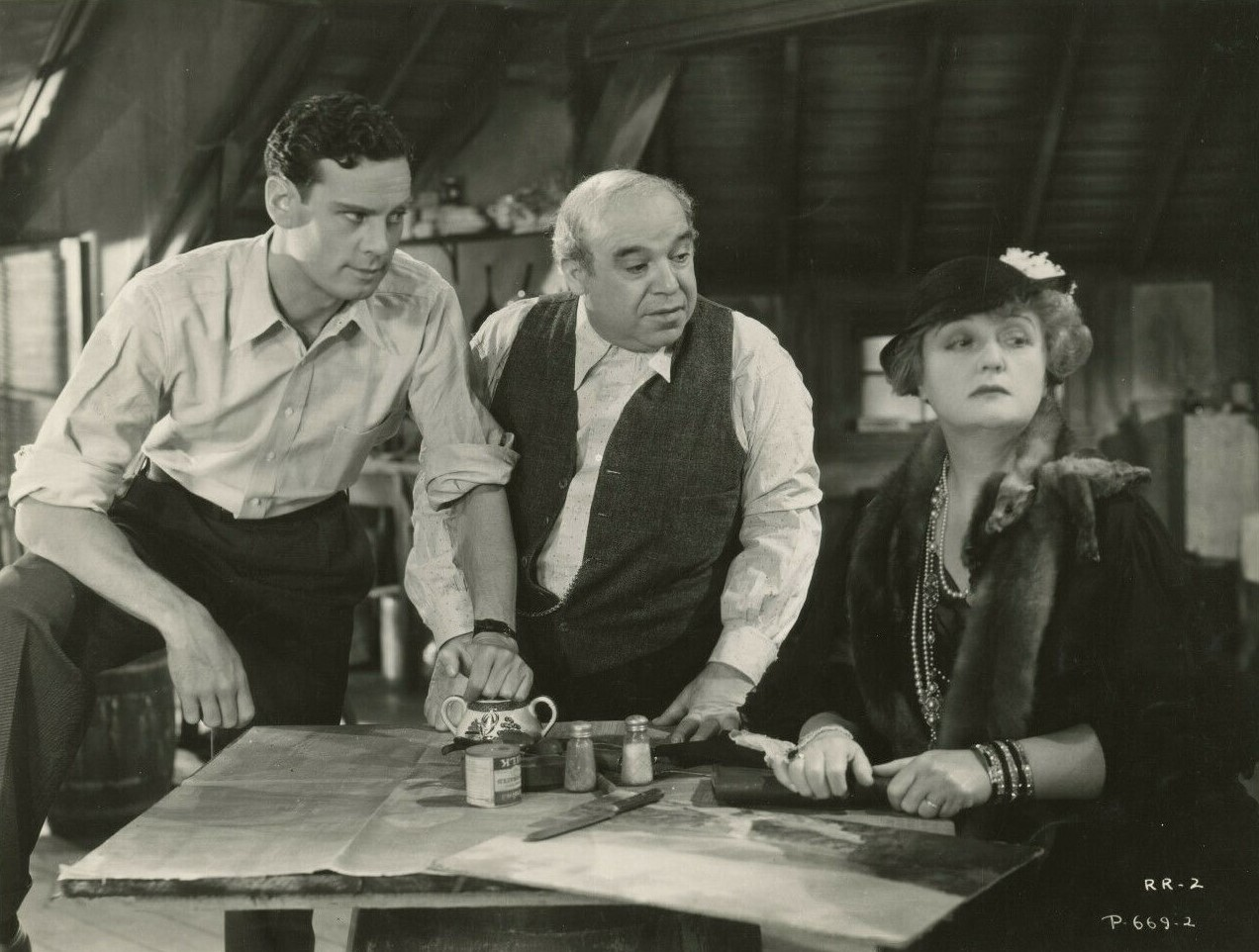 L. to R. : Norman Foster, George Sidney & Laura Hope Crews in Rafter Romance - publicity still (cropped)